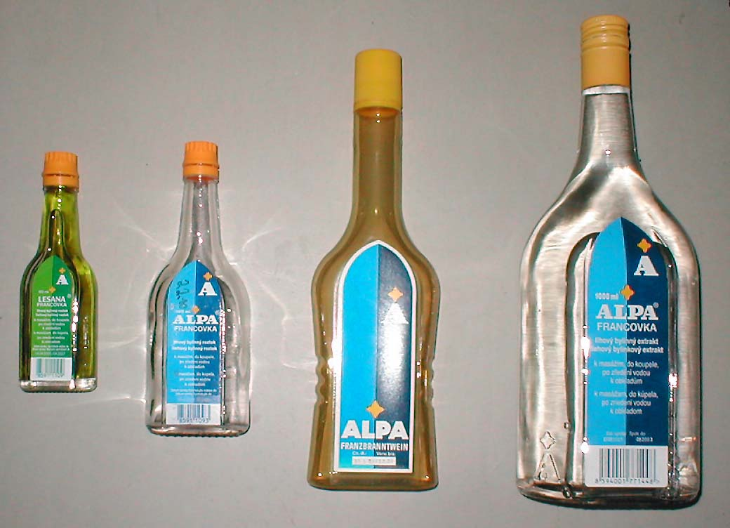 Bottles of surgical spirit